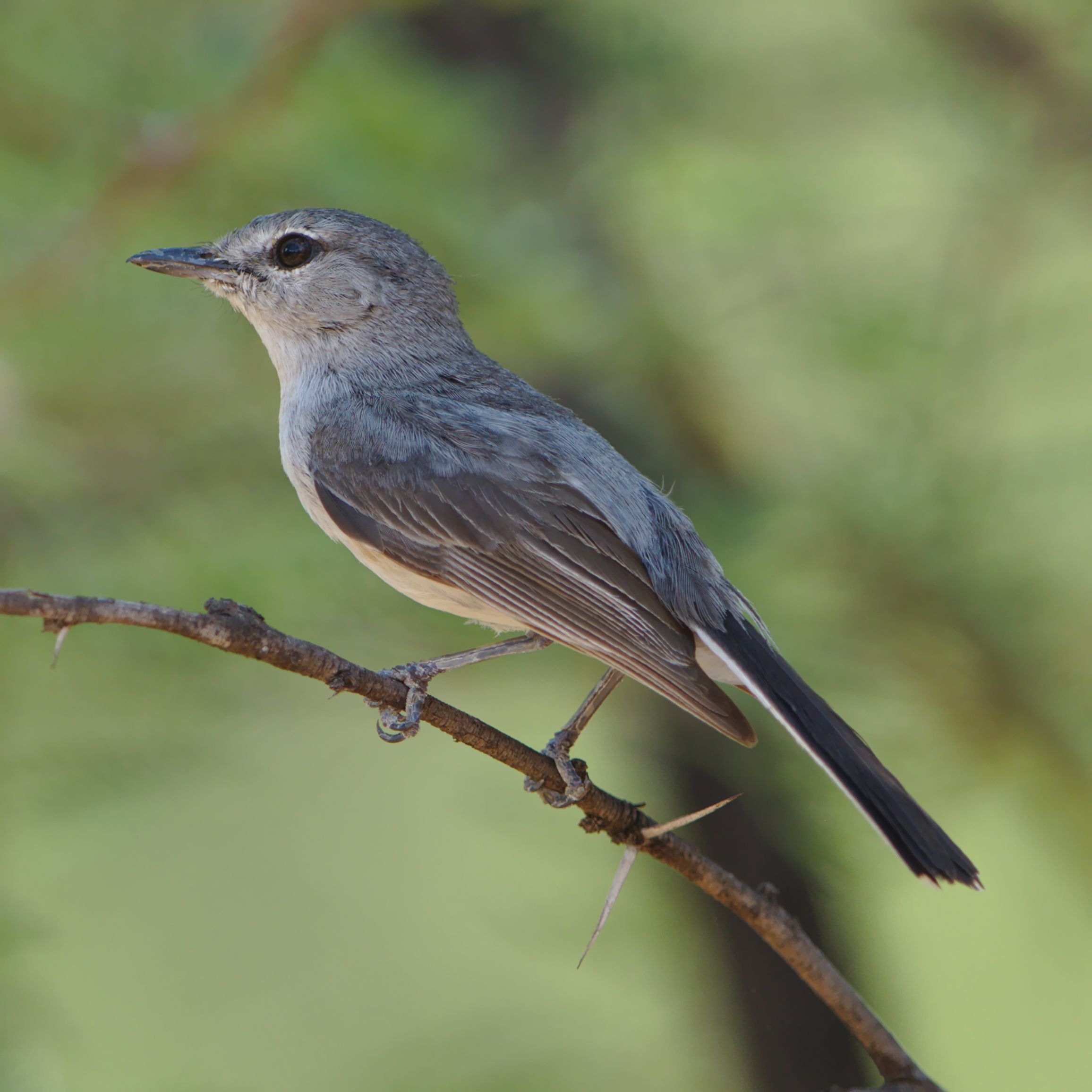 Grey tit-flycatcher, Myioparus plumbeus, at Marakele National Park, Limpopo, South Africa